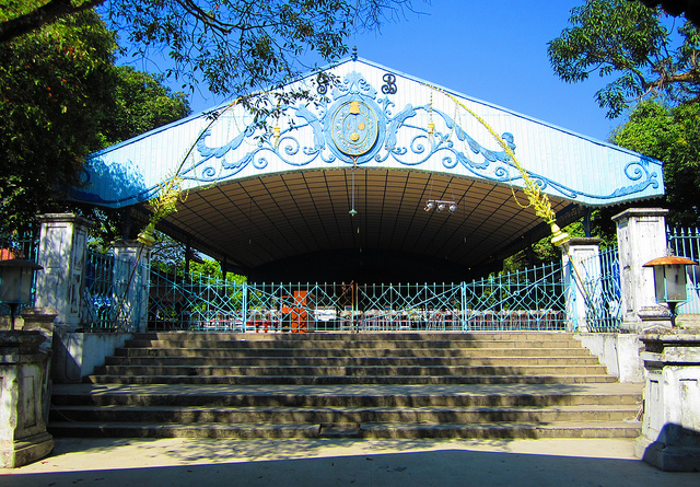 Sitihinggil itself is meant to be a raised area, to be reached by going up a flight of stairs, and meant to resemble a small mountain, like'the back of a tortoise'. Literally Sitihinggil, 'high ground' comes from the Javanese words siti,'soil', and inggil, 'high'. It is said that the original soil level here was raised to its present height with earth from Tolowangi, a place where the soil is known to be extraordinarily fragrant. The complete name for this area is Sitihinggil Palenggahaning Ratu, a chronogram which defines its year of construction AD 1766 (A.J. 1701), during the reign of Paku Buwono III (r. 1749-1788). (